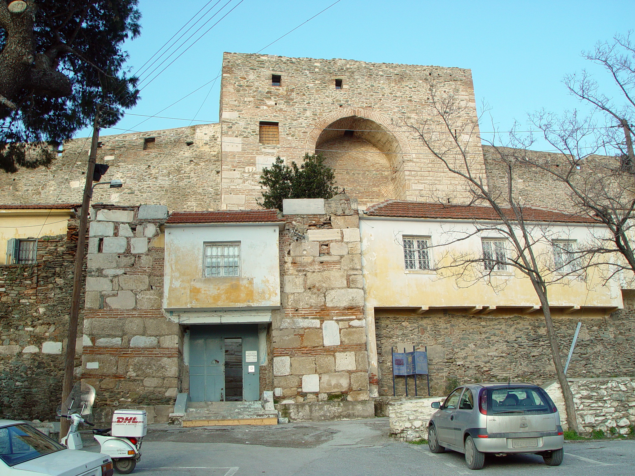 Main entrance of the Heptapyrgion fortress, an Ottoman reconstruction of a Byzantine fort on the Thessaloniki acropolis (1431). Photograph taken by Marsyas 09:54, 28 February 2006 (UTC)